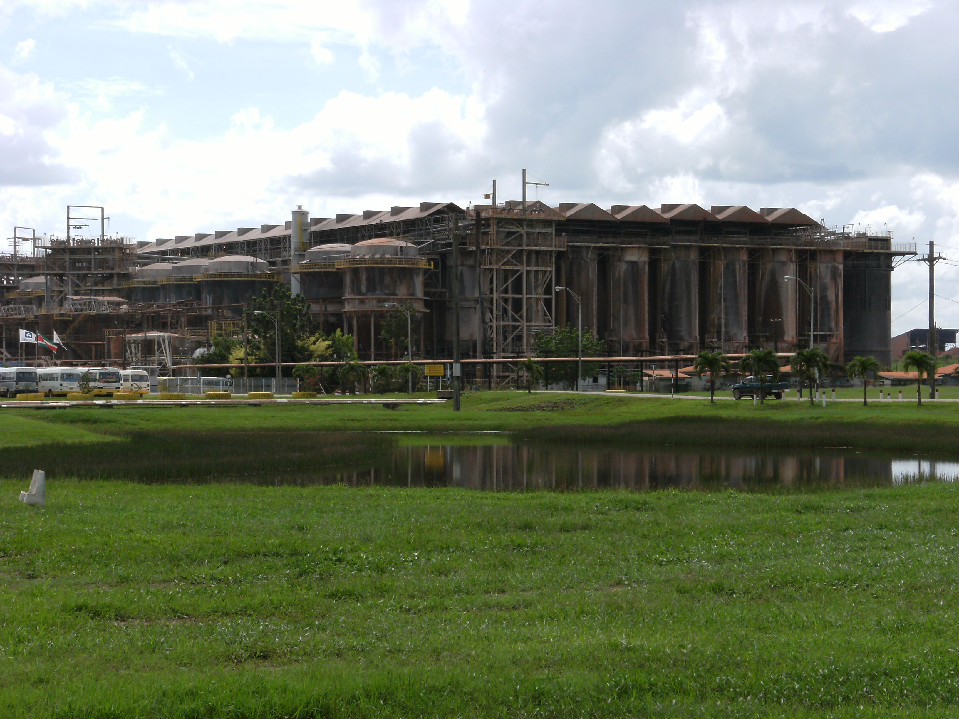 Suriname, Suralco Bauxite Factory at Paranam.